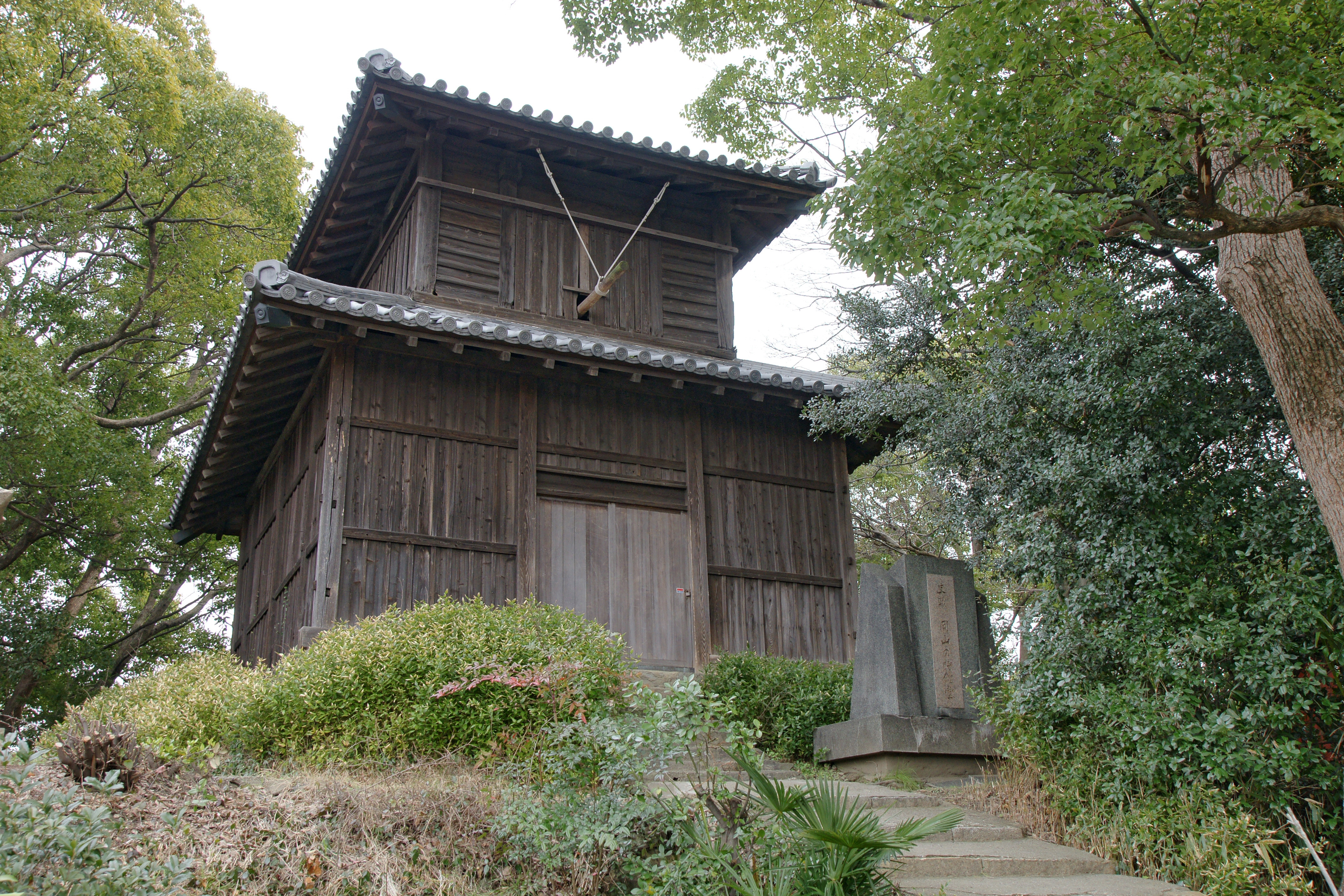 Okayama-no-Jishodo, Wakayama, Wakayama prefecture, Japan